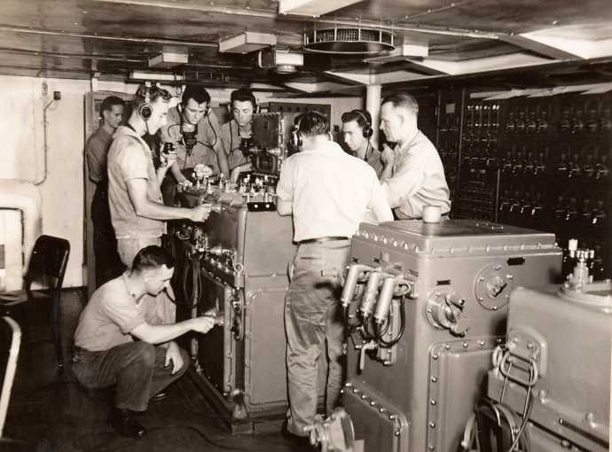 National Archives #80-G-367549. Photograph of MK1 computer aboard USS Hornet (CV-12) This is the Ford Instruments Mark 1 computer that provided gunfire solutions for the Mark 37 GFCS.